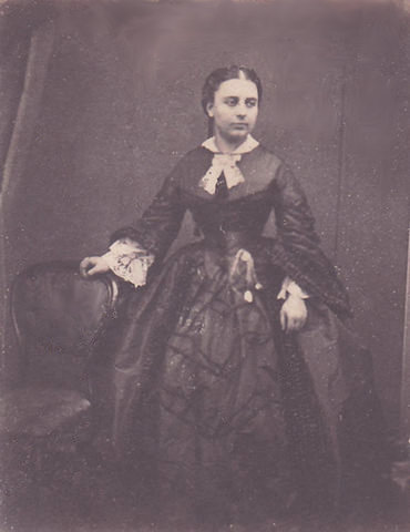 Marietta Piccolomini (15 March, 1834 - 23 December, 1899)[1] was an Italian soprano